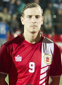 Adam Priestley vs. Estonia